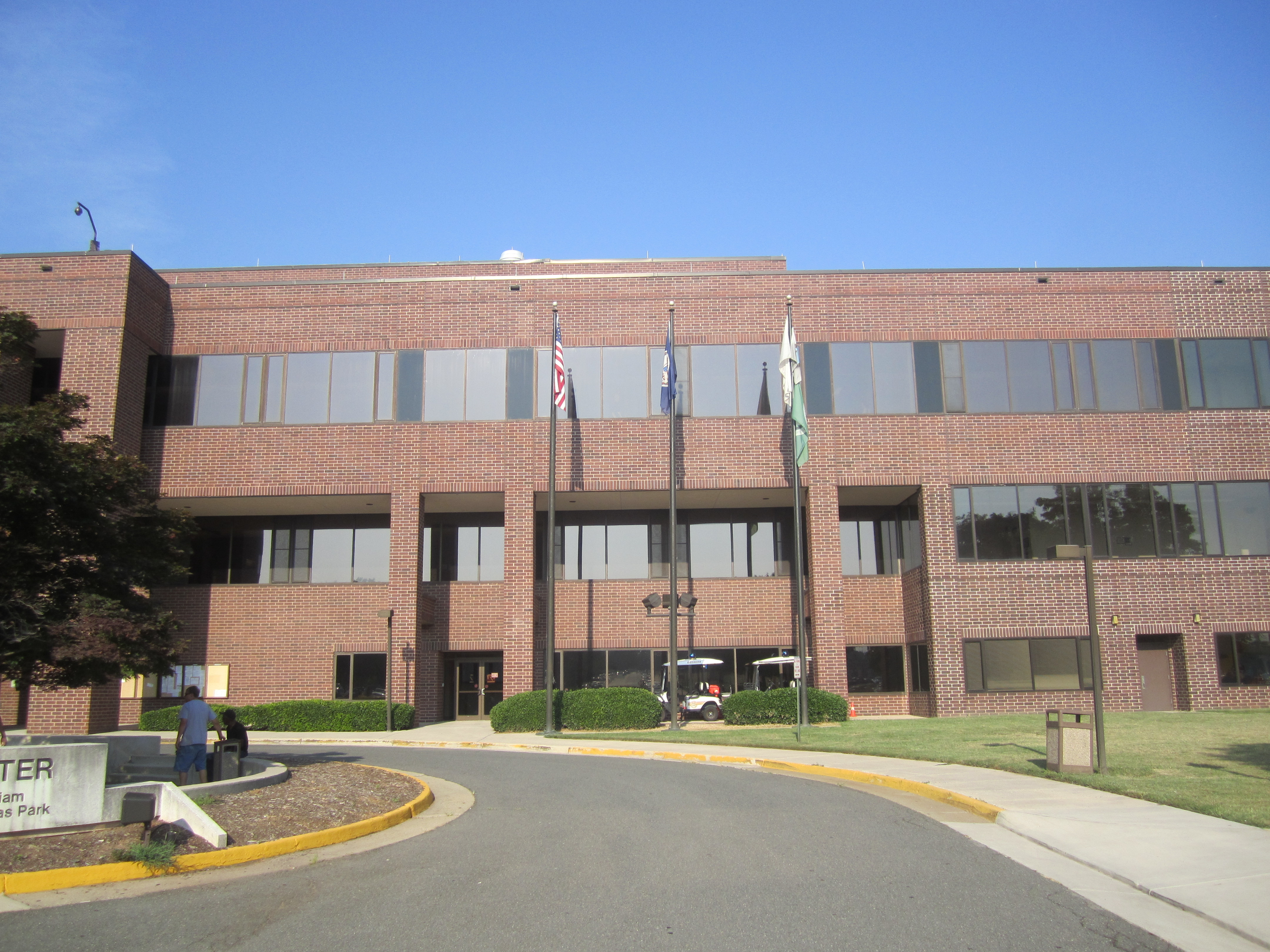 July 2011 photograph of Prince William County Courthouse in Manassas, Virginia, taken with a Canon camera.